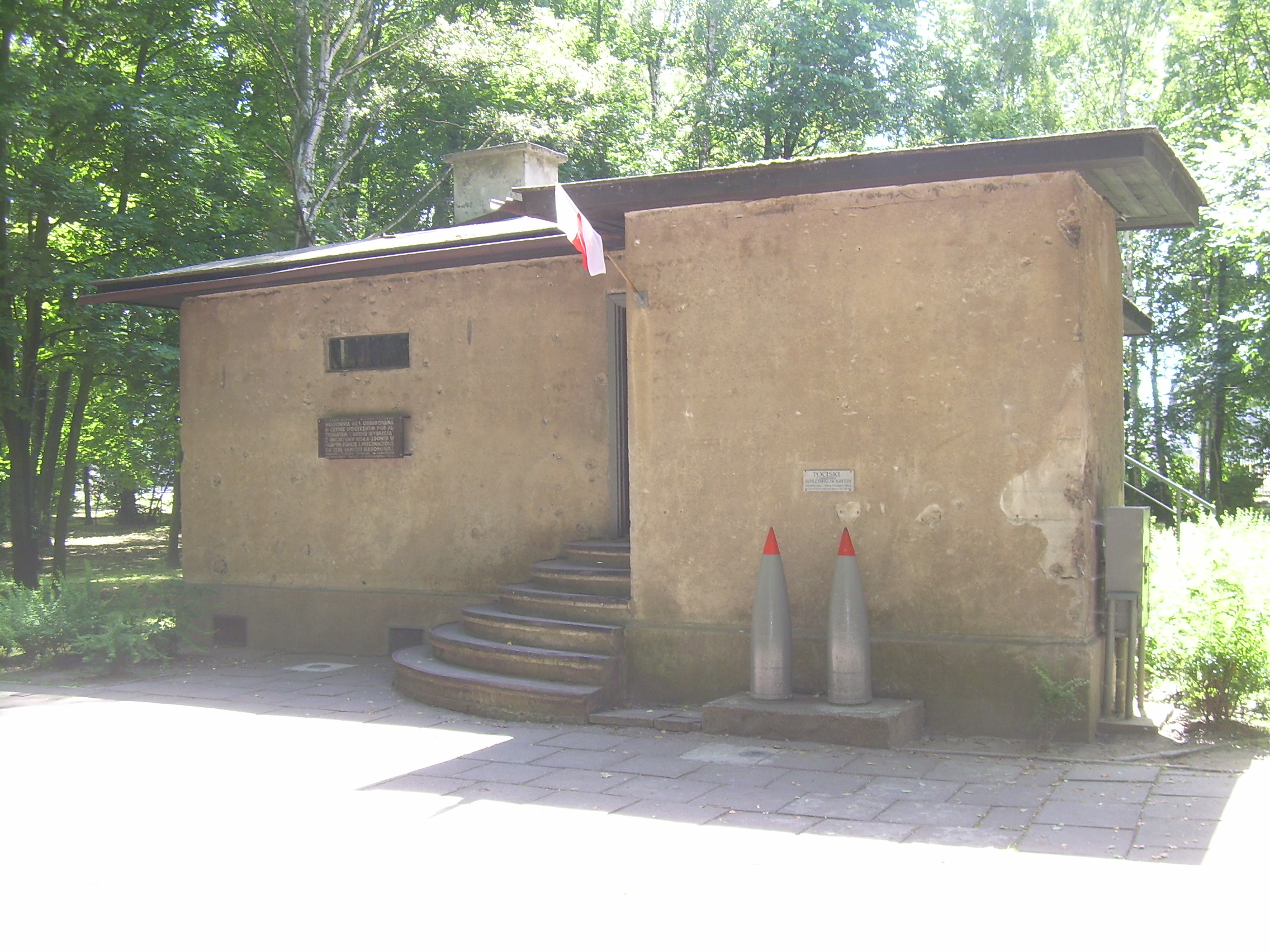 Westerplatte in Gdańsk, Poland